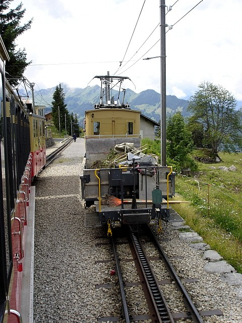 Schynige Platte-Bahn